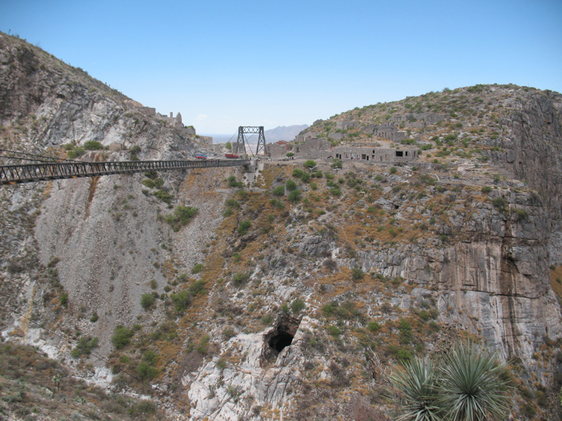 Recuerdo del Puente de Ojuela (Gold_Mine 1892) near Torreon, Mexico